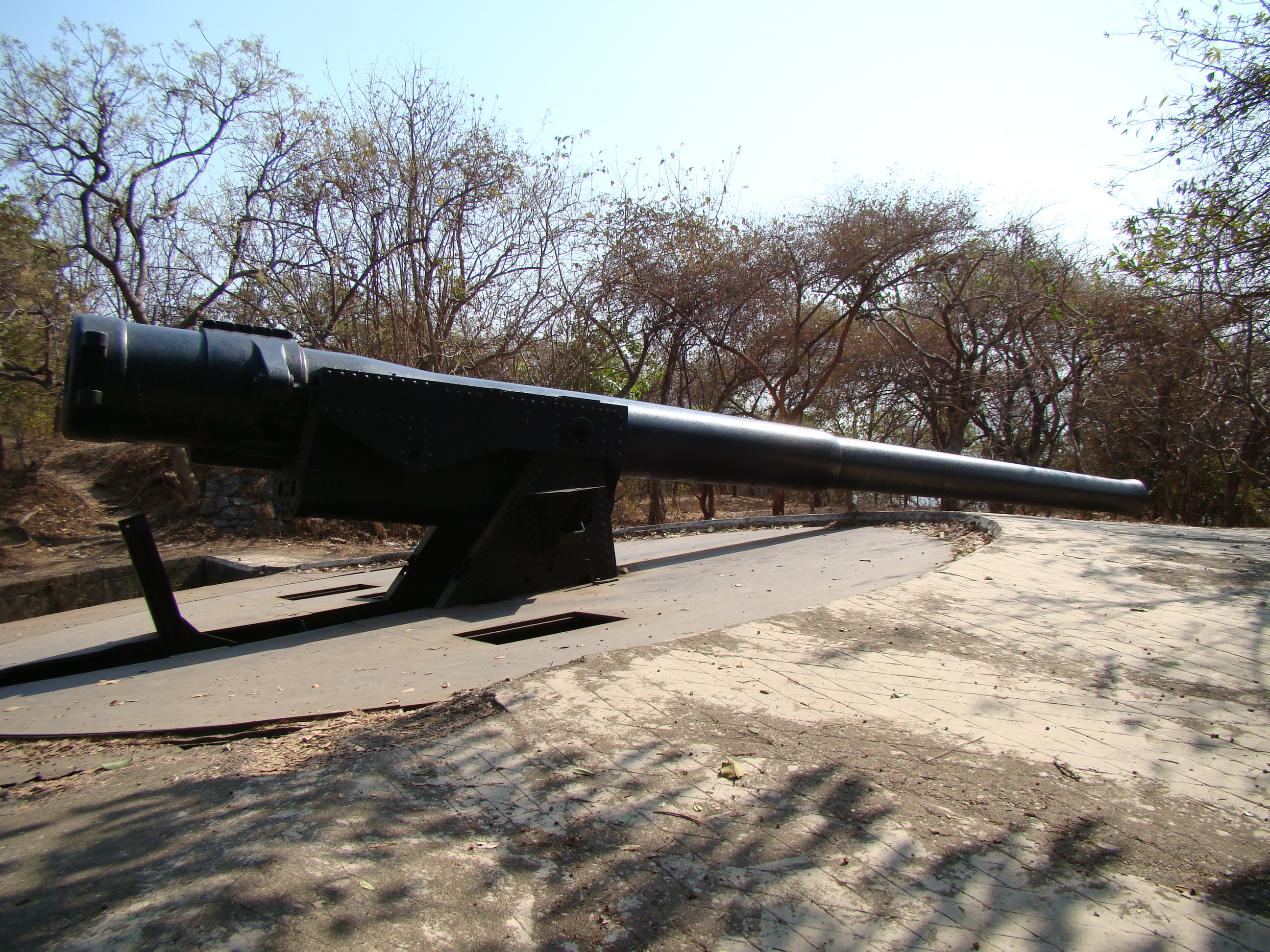 BL 7.5 inch Mk II coast defence gun at Elephanta, Mumbai Harbour, India.